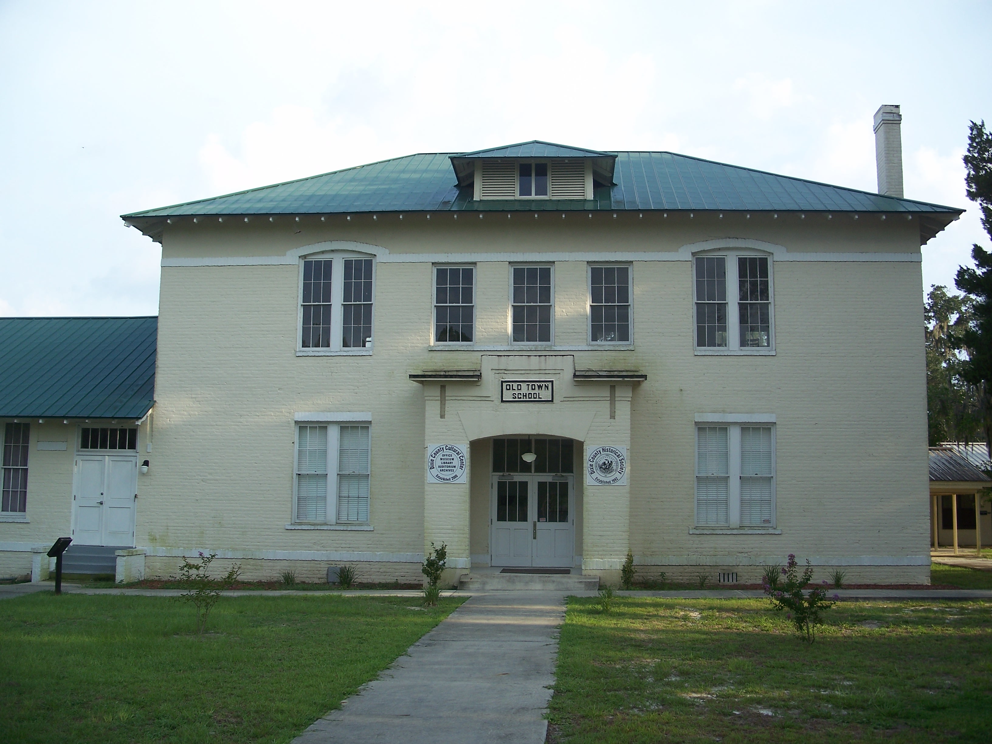 Old Town, Florida: Old Town Elementary School, now home to the Dixie County Cultural Center